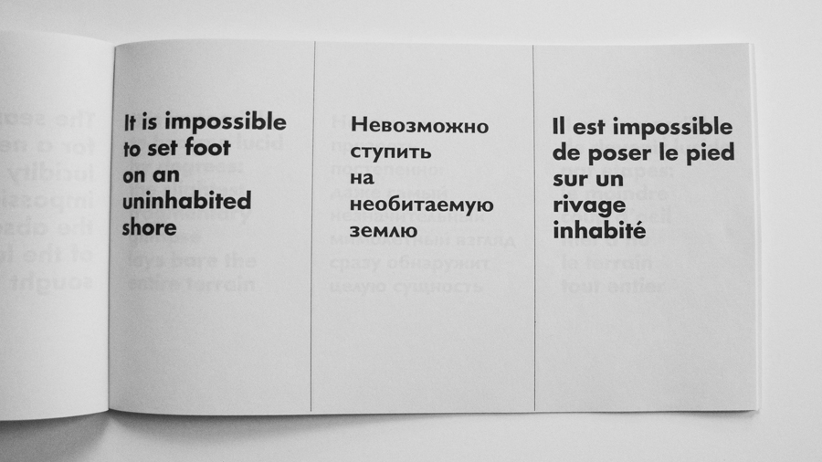 Photograph of a double page spread from the 1996 publication Lucid Between Bouts of Sanity by artist Martin Firrell